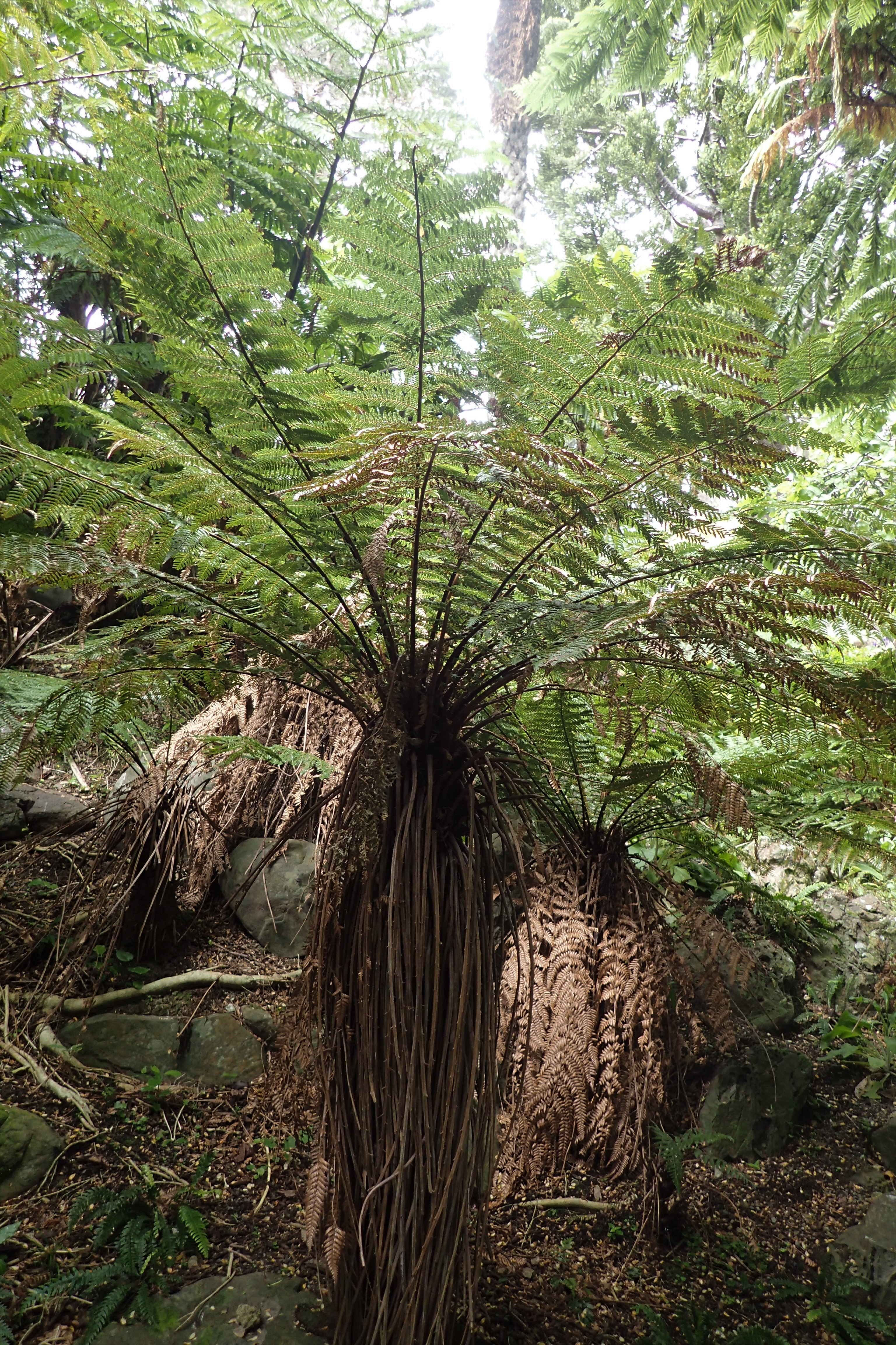 Dicksonia fibrosa in Wellington Botanical Garden